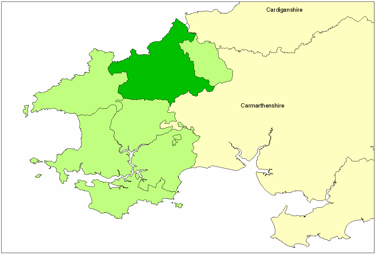 Map showing location of the ancient Hundred of Kemes in Pembrokeshire